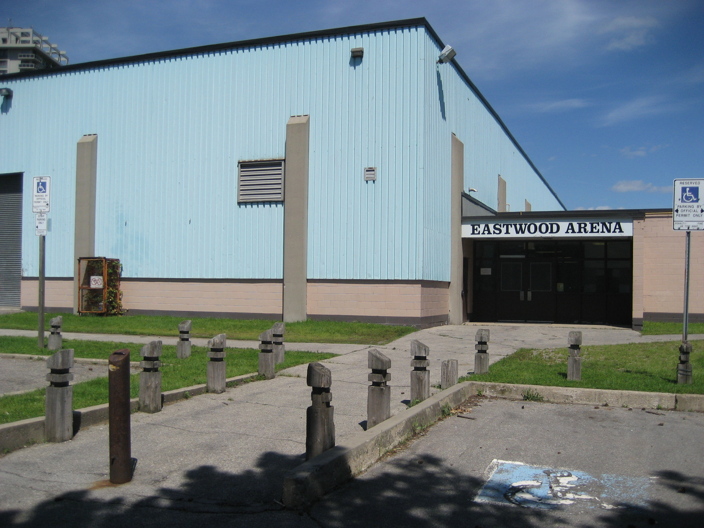 Eastwood Arena, Burlington Street, Hamilton, Canada